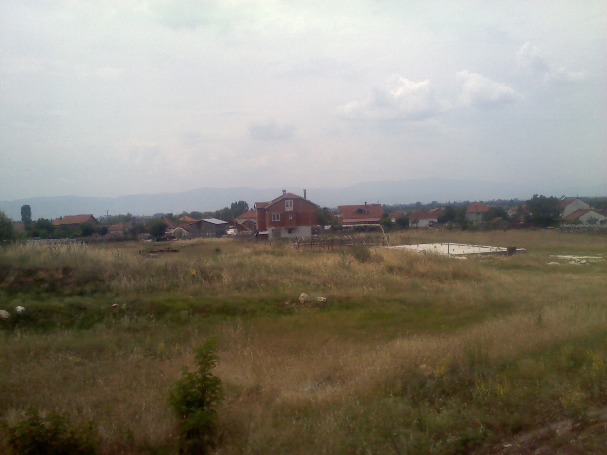 View of Novo Lagovo.